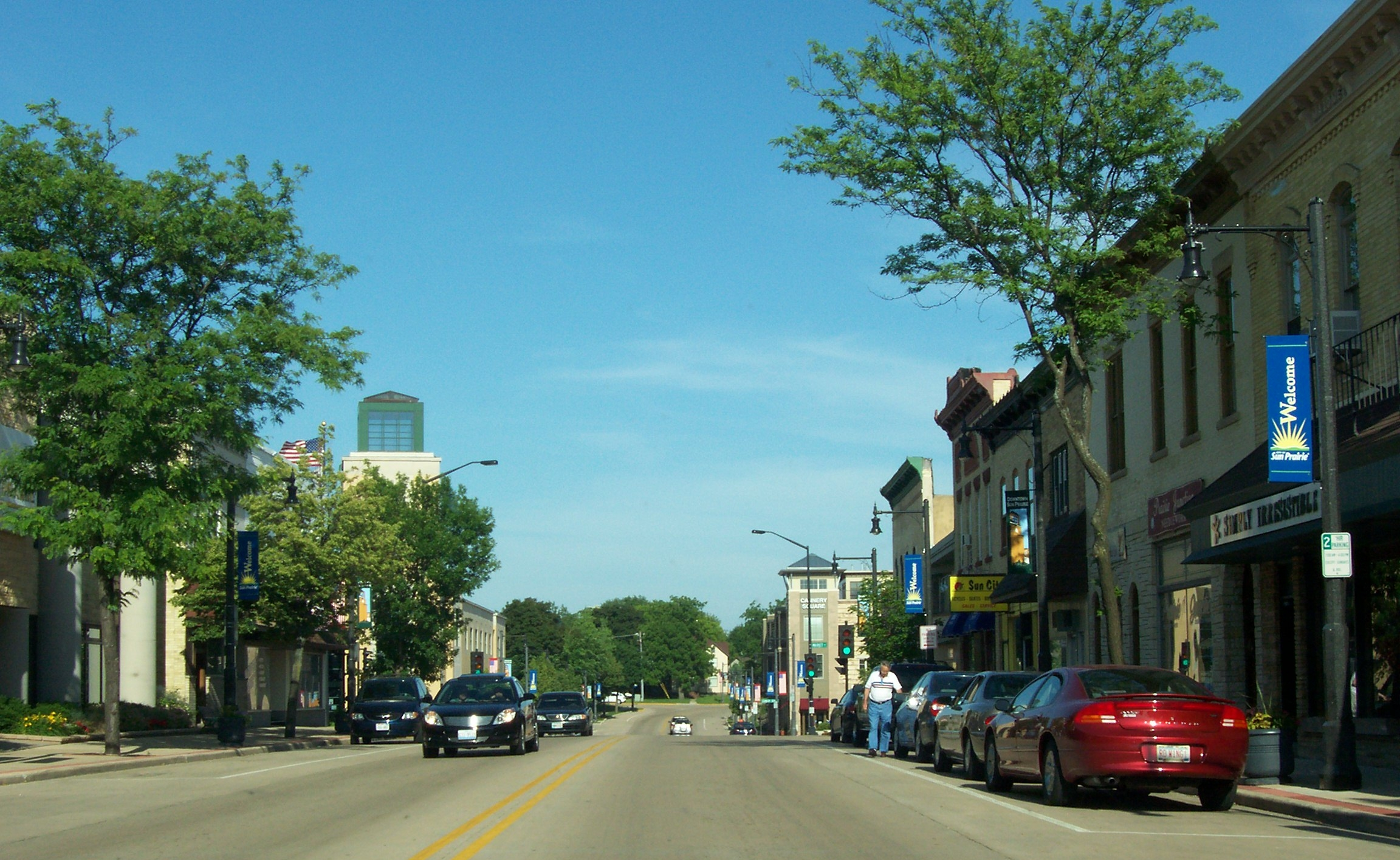 Looking west at downtown Sun Prairie, Wisconsin(USA) while traveling on Wisconsin Highway 19.